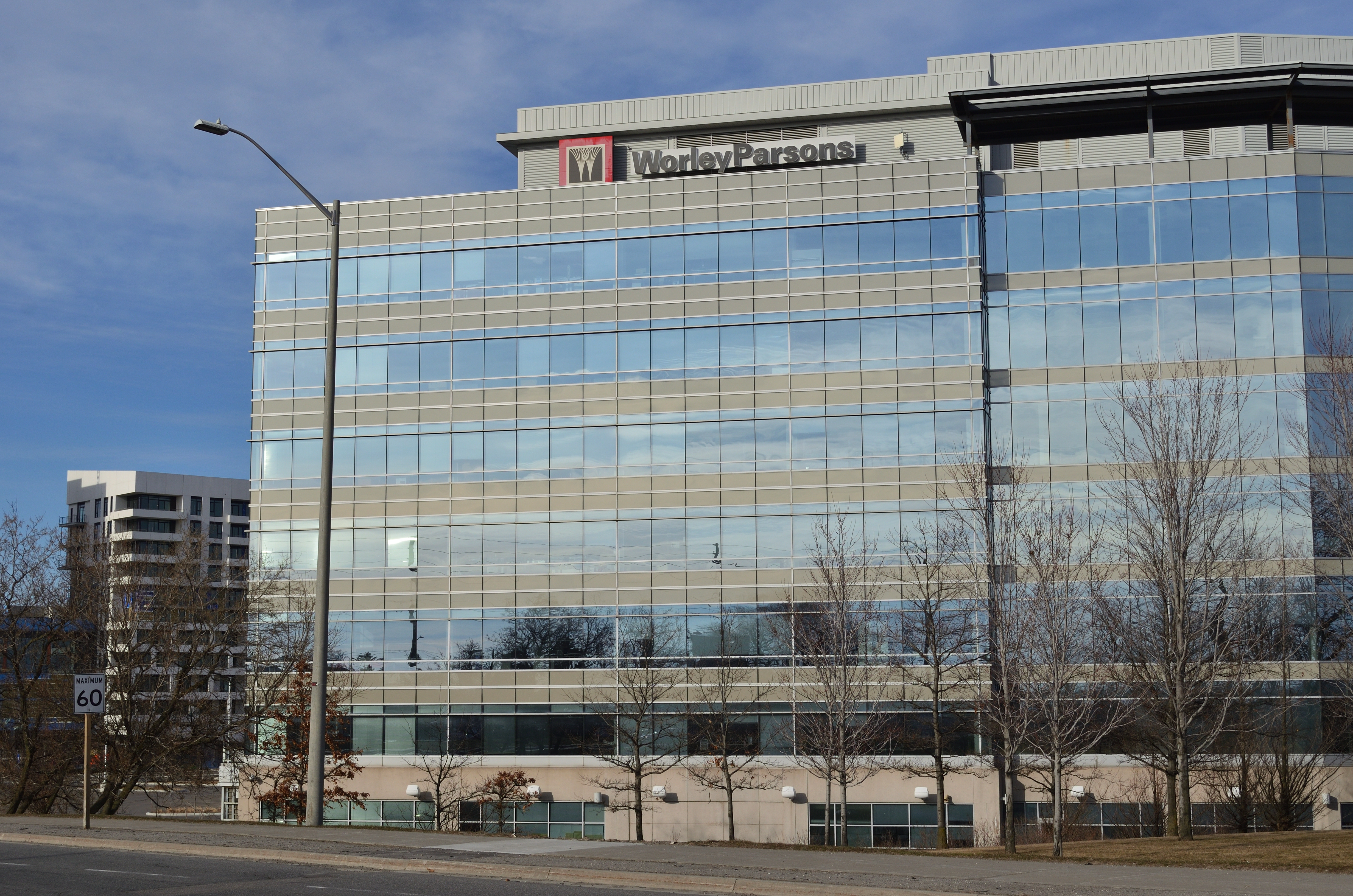 WorleyParsons Canada - Address: 8133 Warden Ave, Markham, ON L6G 1B3